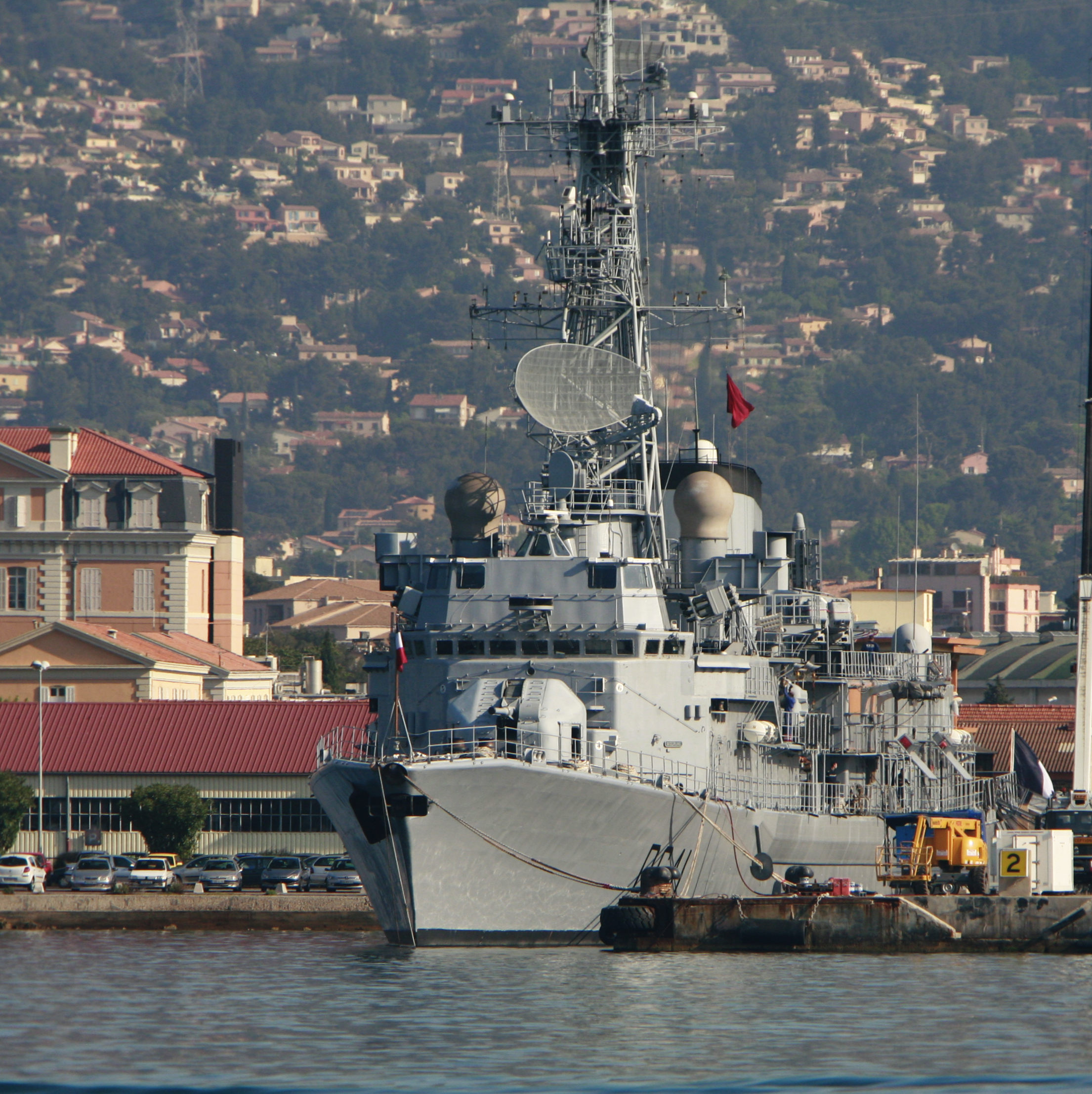 The Dupleix (D 641) moored in Toulon harbour.